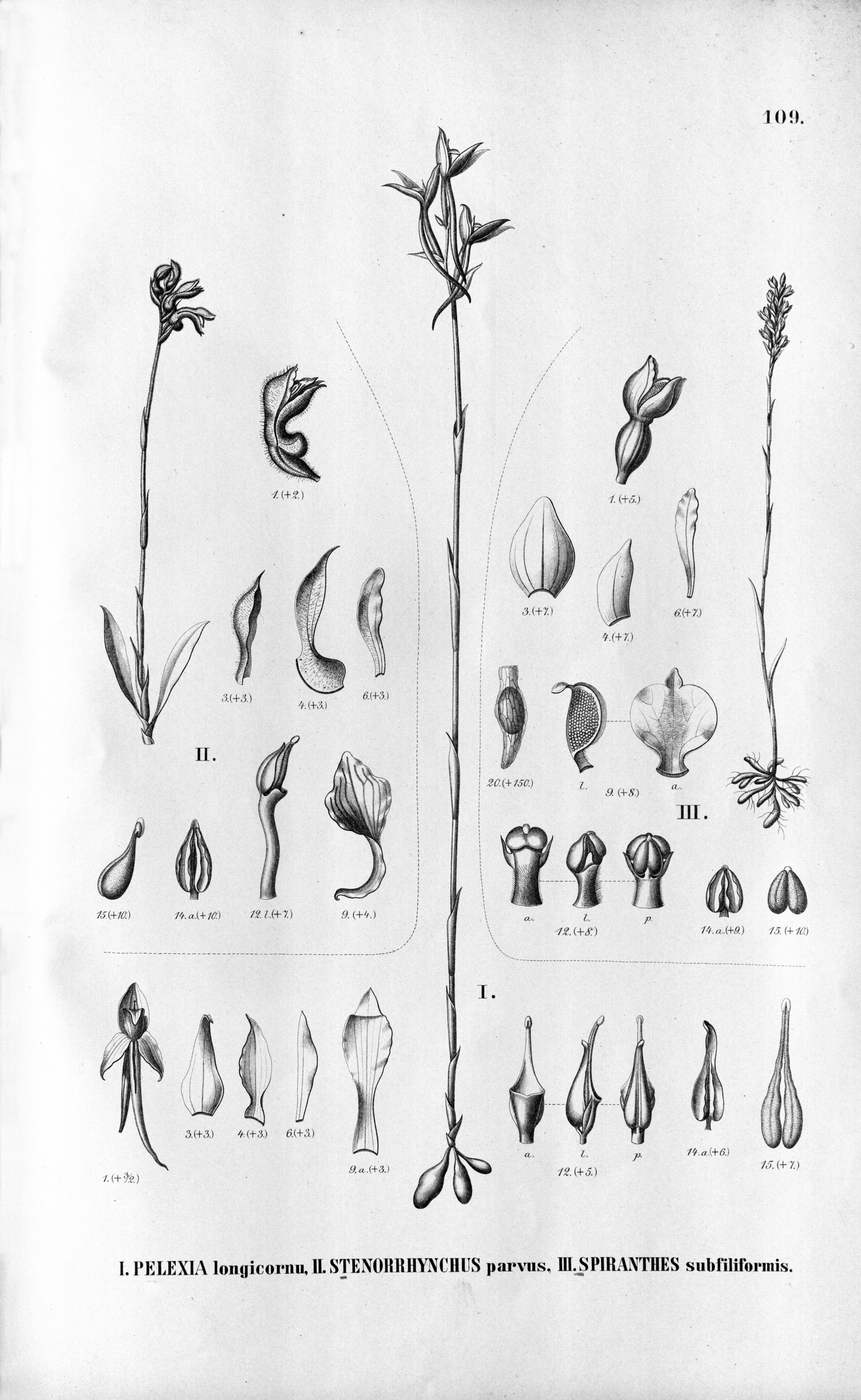 Illustration of I. Eltroplectris longicornu (as syn. Pelexia longicornu) II. Pelexia parva (as syn. Stenorrhynchus parvus) III. Brachystele subfiliformis (as syn. Spiranthes subfiliformis)